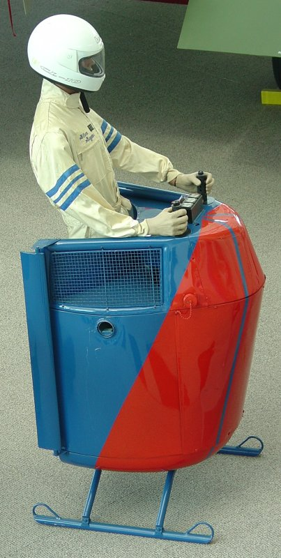 Side view of Williams X-Jet displayed in Museum of Flight in Seattle